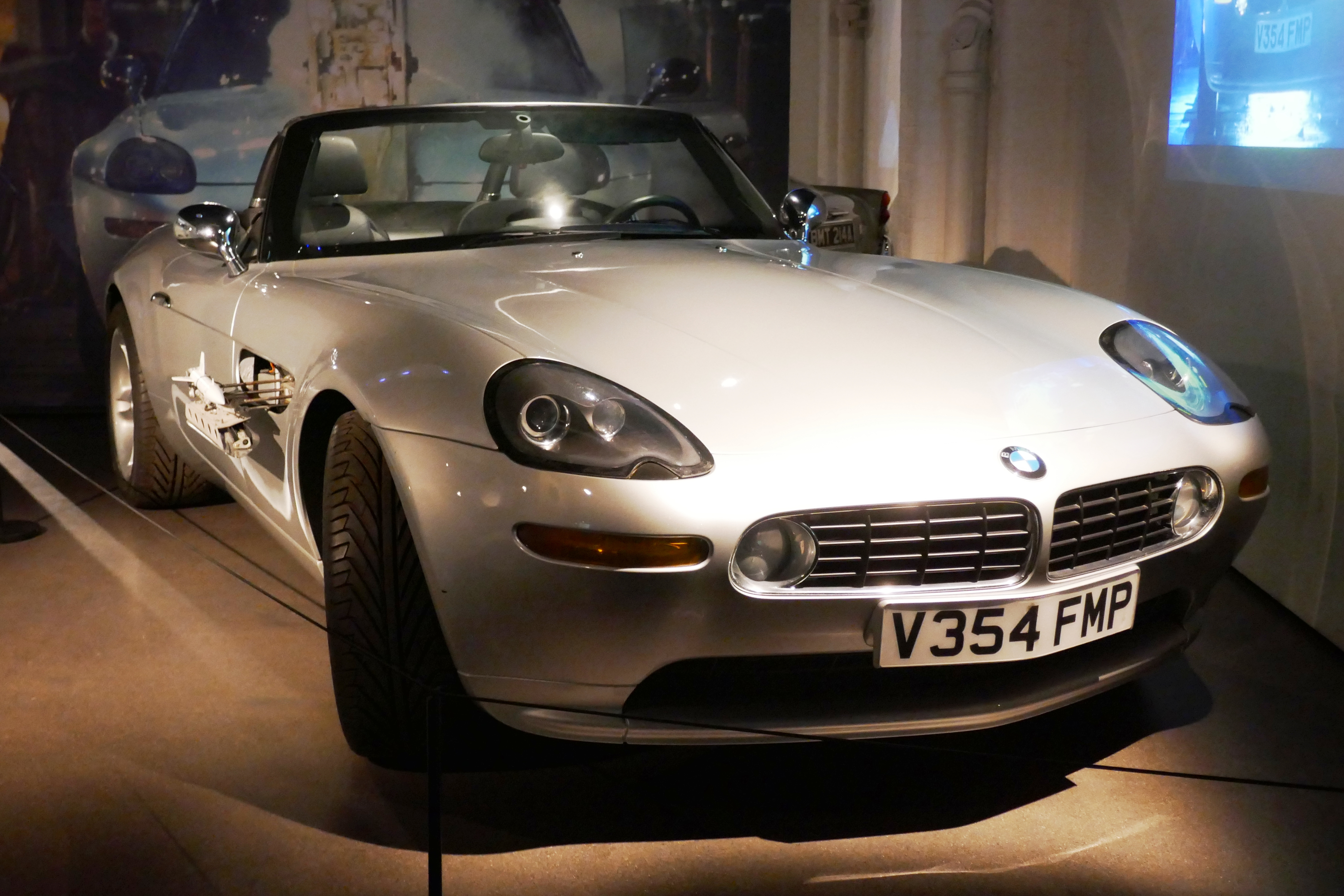 BMW Z8 from the movie "The World Is Not Enough" National Film Museum, London - Bond in Motion Exhibition (2017)